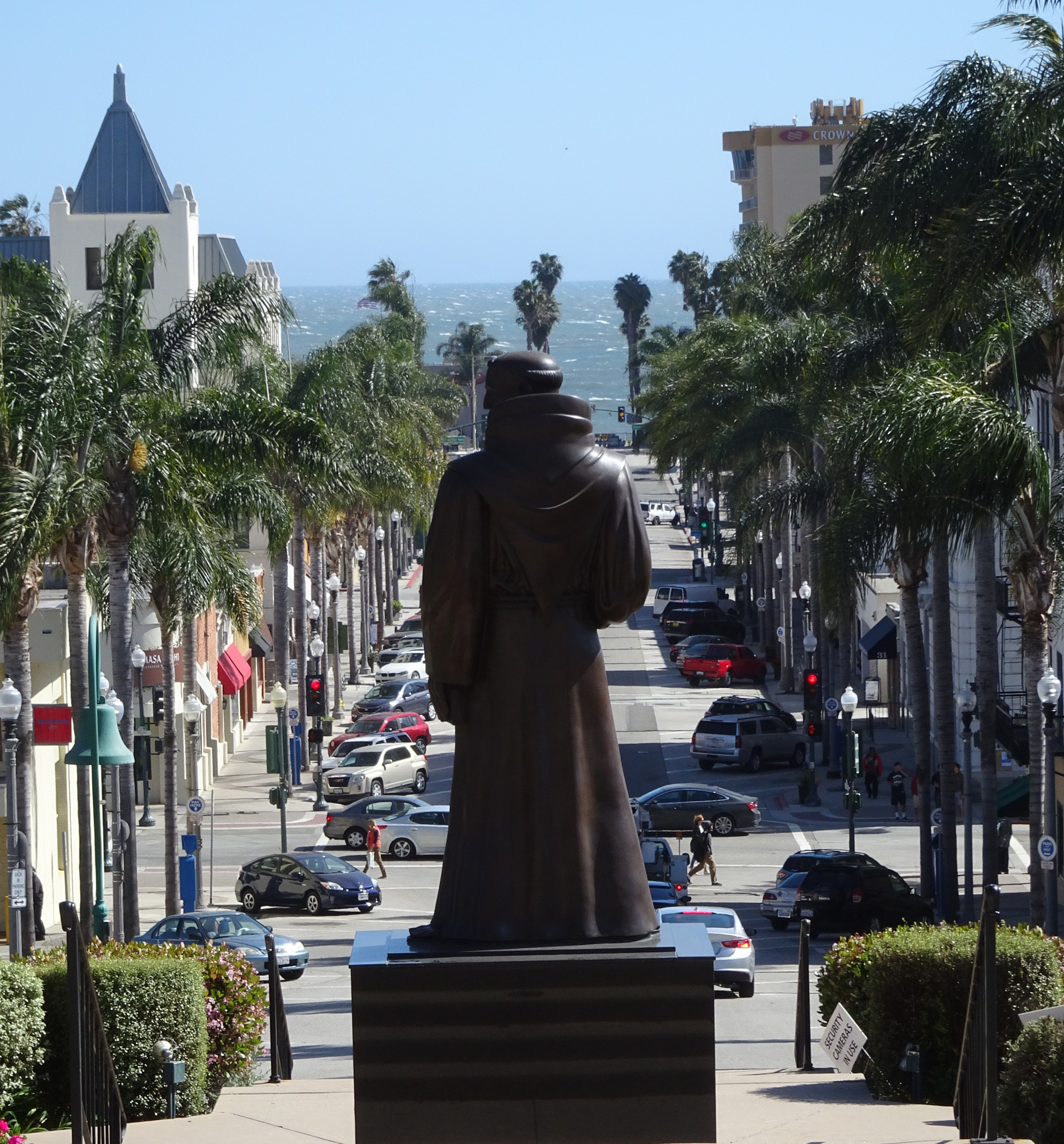 View of Father Serra Statue and California Street from steps of Ventura City Hall